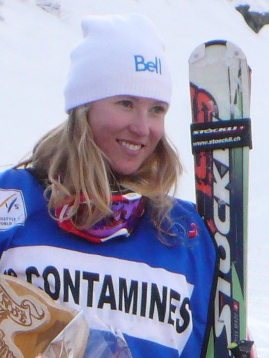 Ashleigh McIvor : winner of Ski Cross World Cup at Les Contamines-Montjoie on 2010-01-10)